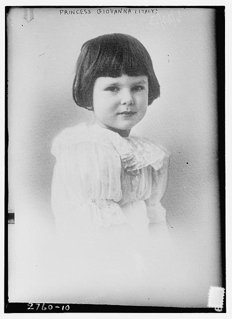 Princess Giovanna of Savoy, later Tsaritsa Ioanna of Bulgaria (1907-2000) as a small child.